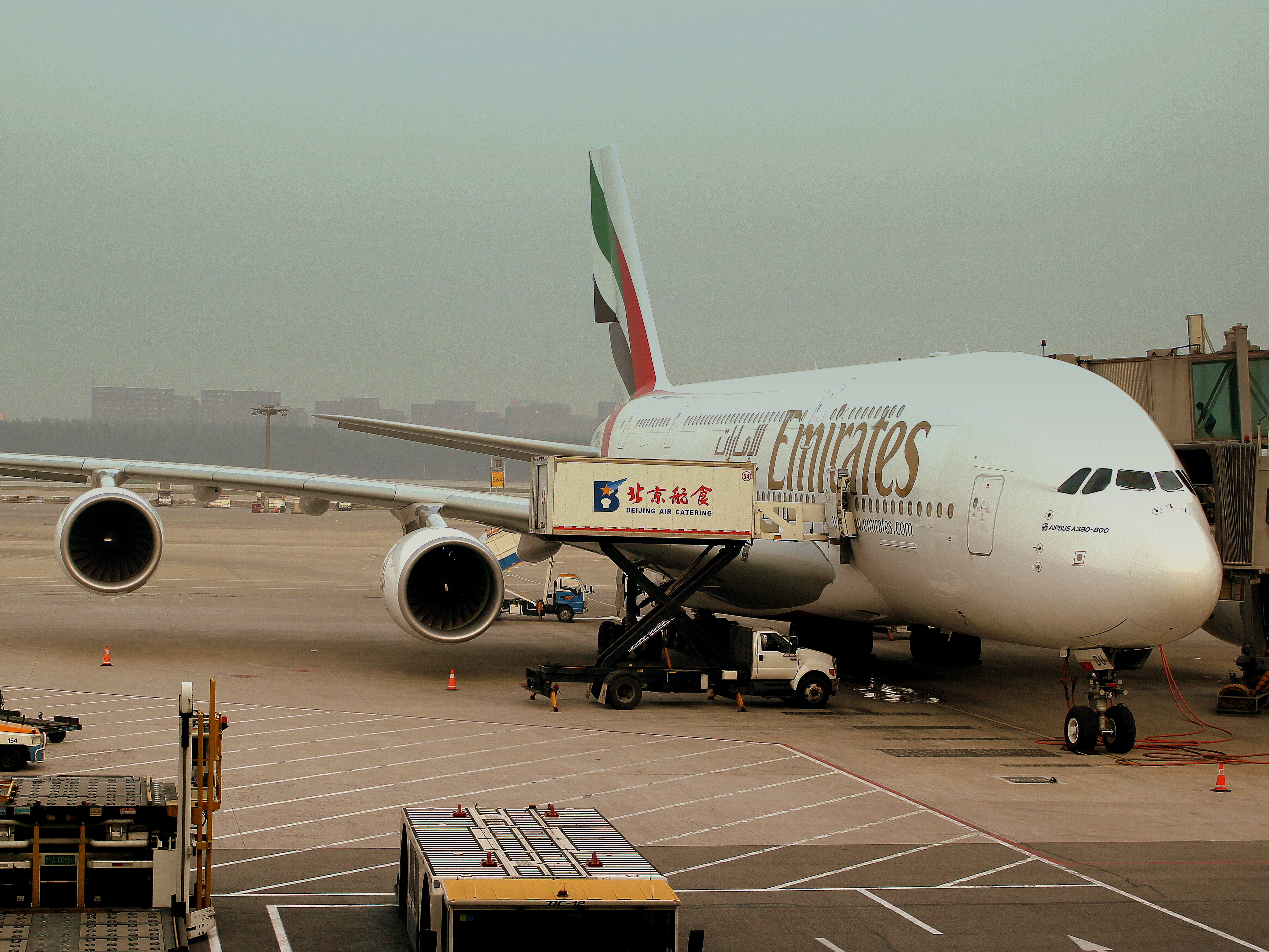 EMIRATES AIRBUS A380-800 AT THE GATE AT BEIJING CAPITAL AIRPORT CHINA OCT 2012